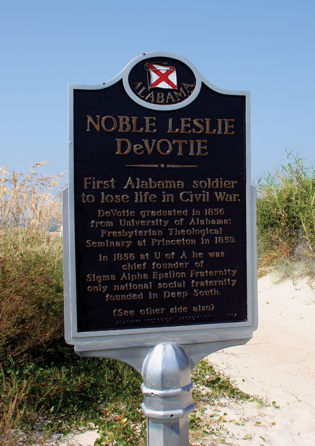 The Alabama historic marker that commemorates the death of Noble Leslie DeVotie, Sigma Alpha Epsilon's primary founder